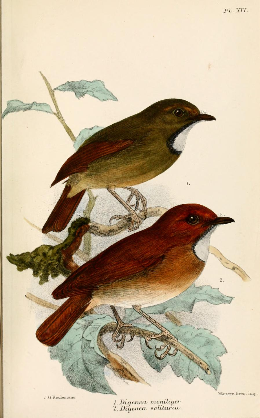 Digenea moniliger = Anthipes monileger White-gorgeted Flycatcher (above); and Digenea solitaria = Anthipes solitaris Rufous-browed Flycatcher (below)